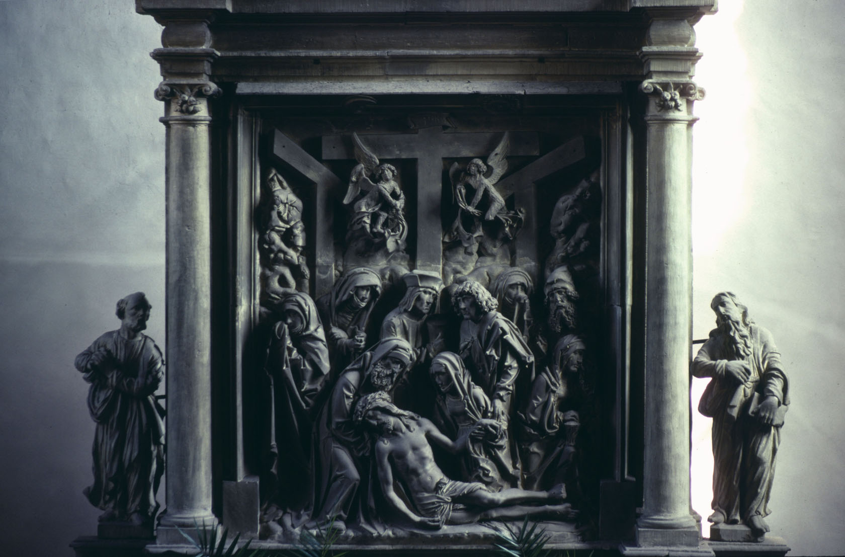 Lamentation of Christ, Altar by Tilman Riemenschneider. Maidbronn/Germany.